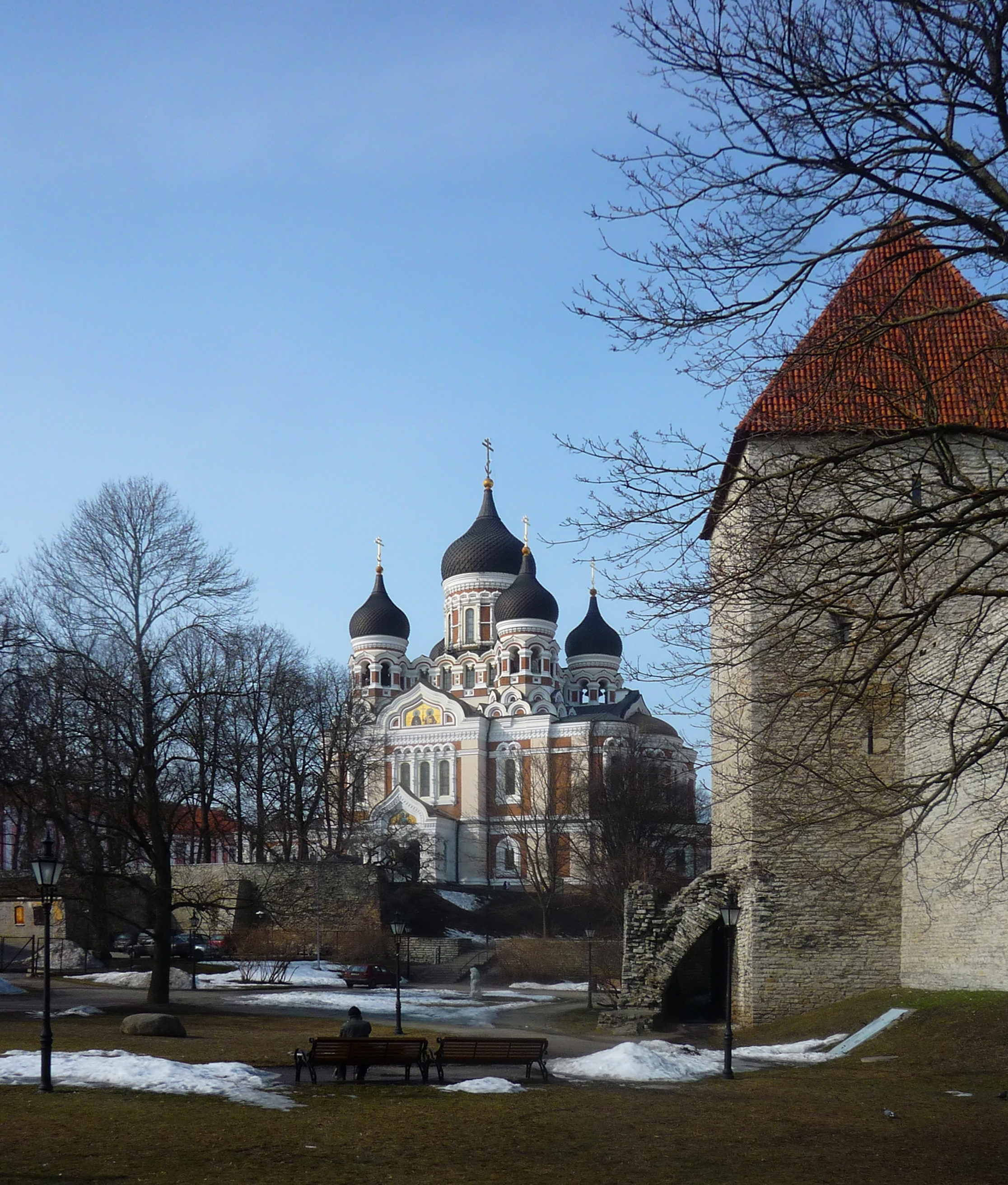 Alexander Nevsky cathedral in Tallinn, Estonia.